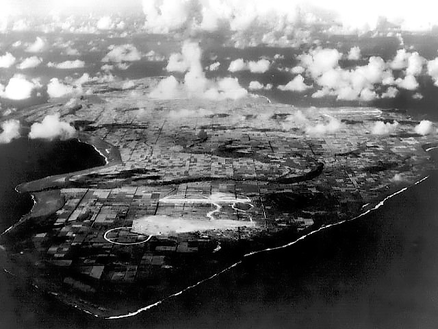 Aerial view of Tinian island